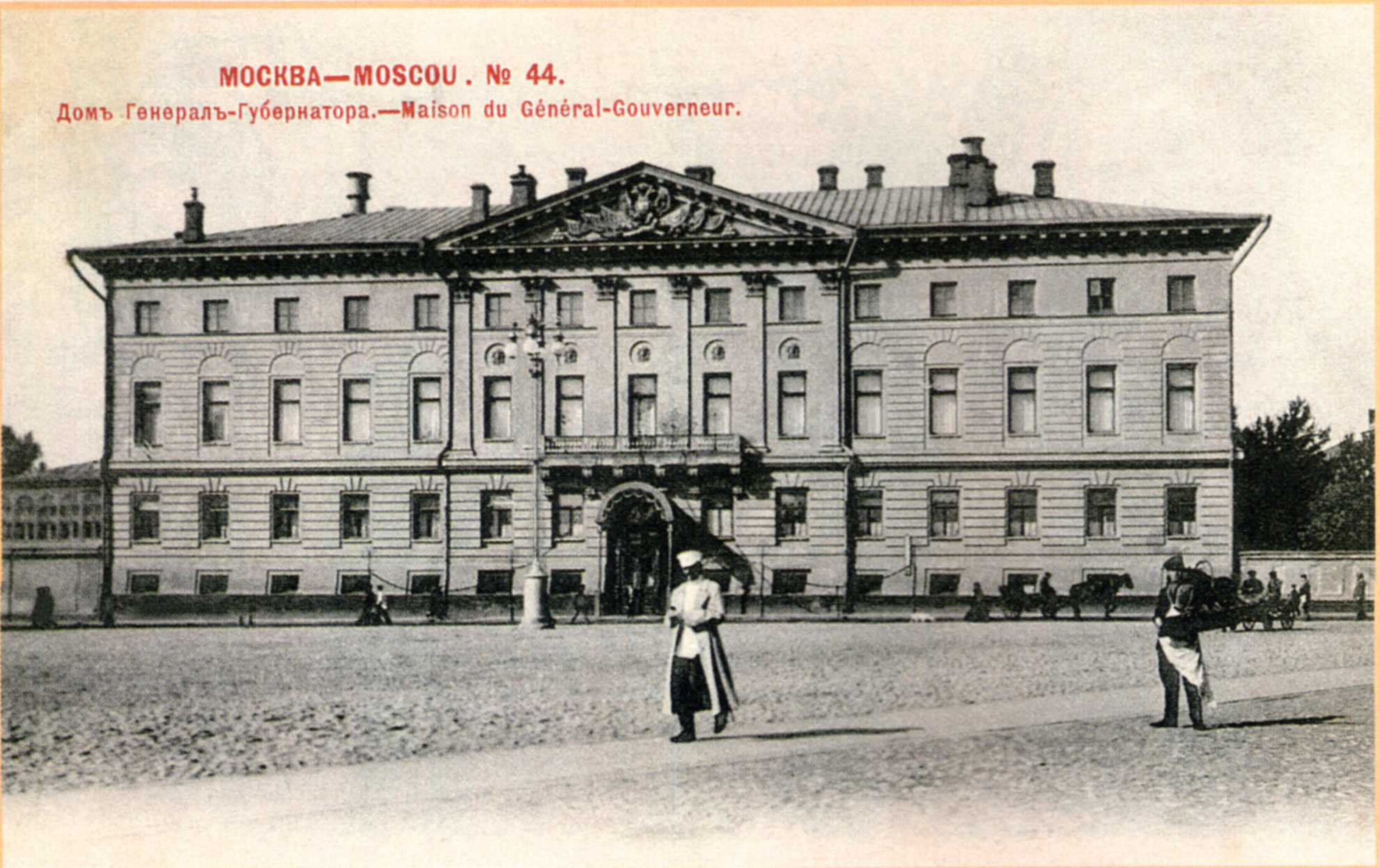 Governor-Generals house before reconstruction.